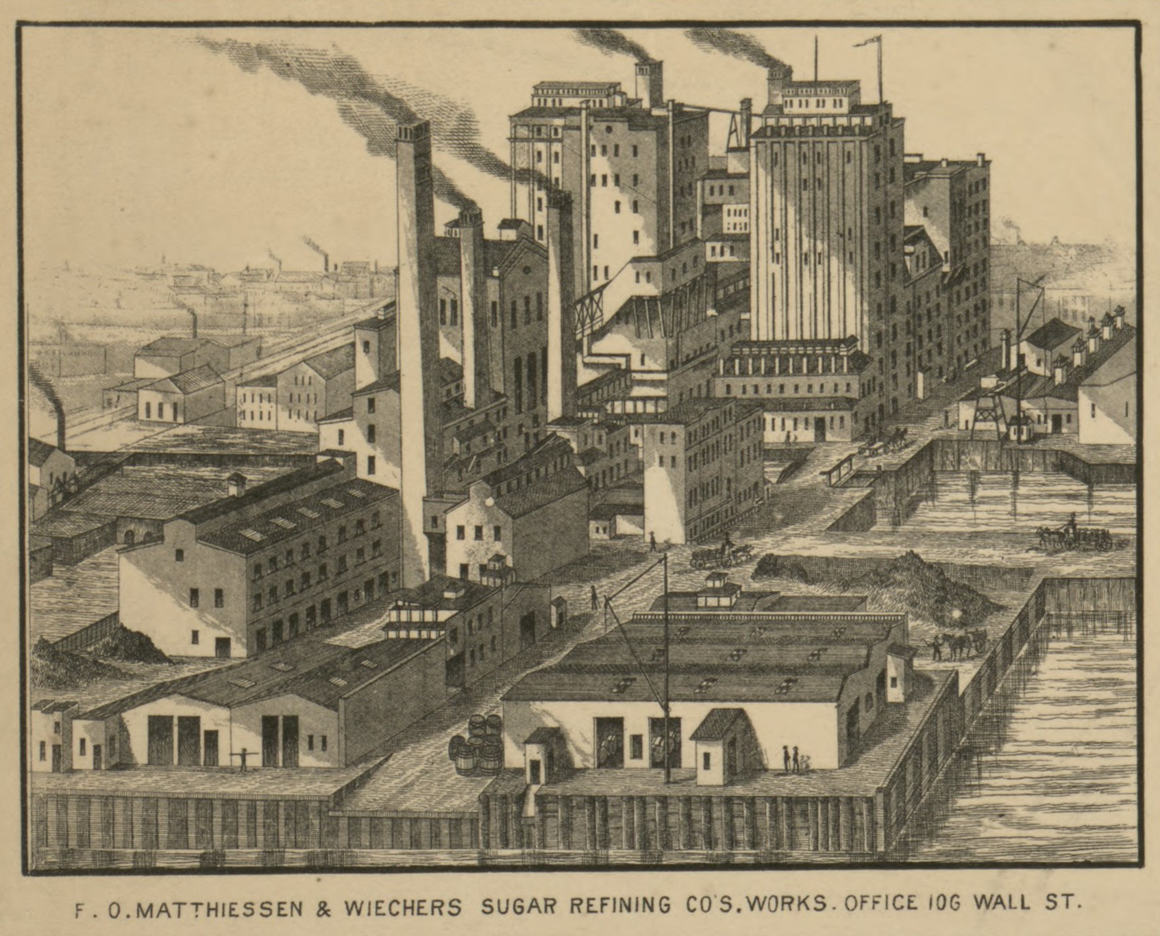 Matthiessen & Wiechers Sugar Refinery, Jersey City, New Jersey. Detail from Taylor Map of New York.